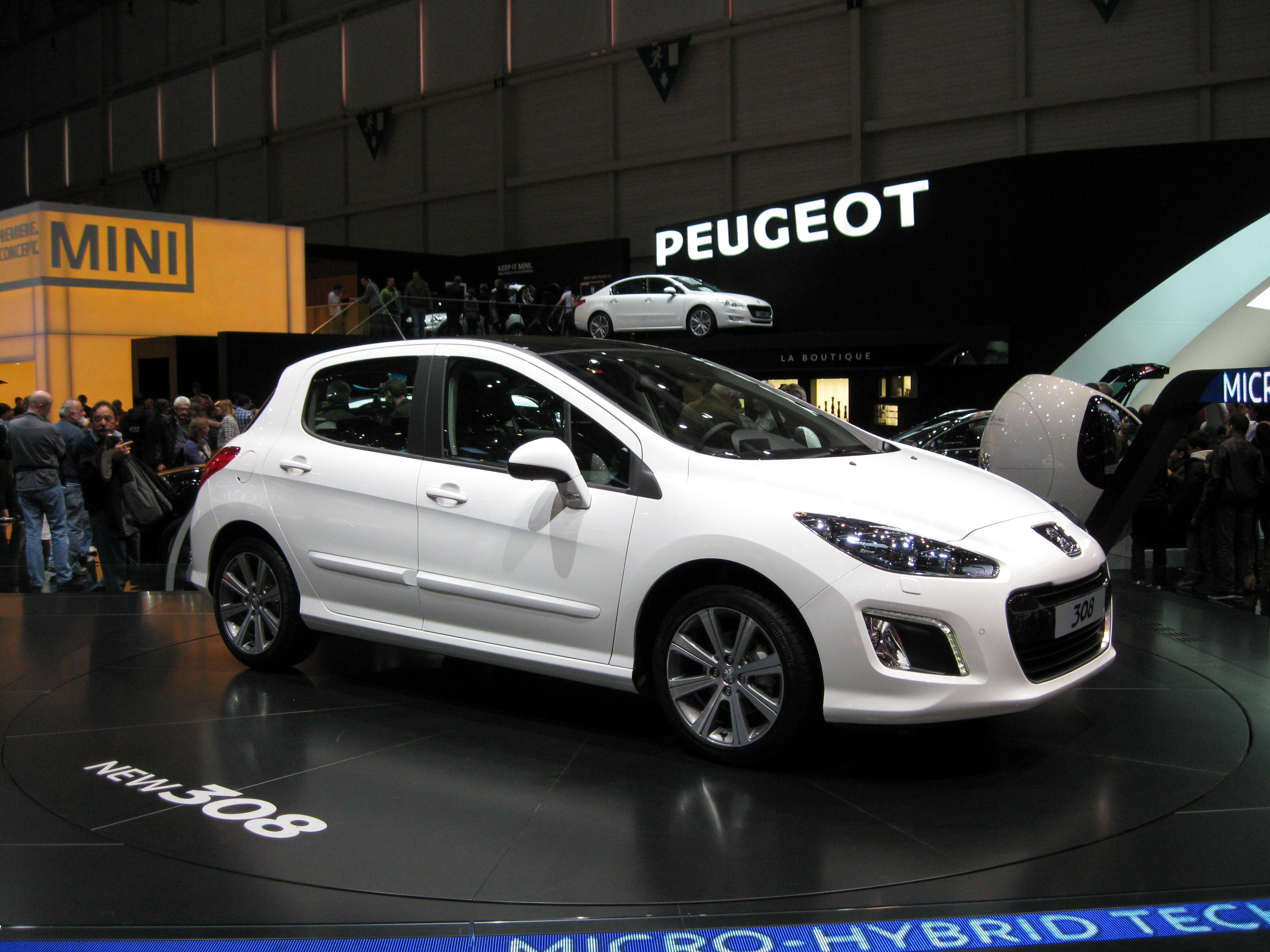 Geneva Motor Show 2011